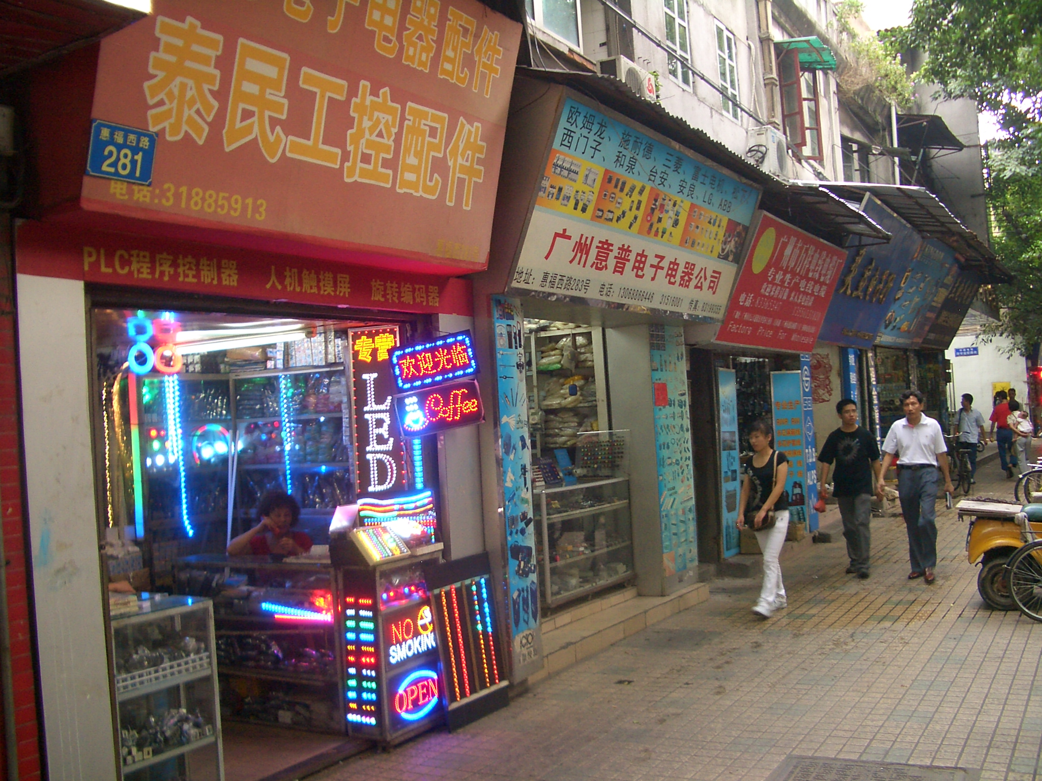 Electronic components shops in Guangzhou. The one in front is specializing in LEDs. There is a whole area - several blocks not far from the Guangta Mosque - mostly taken over by these shops. They, apparently, supply local companies that assemble various electronic and electric products